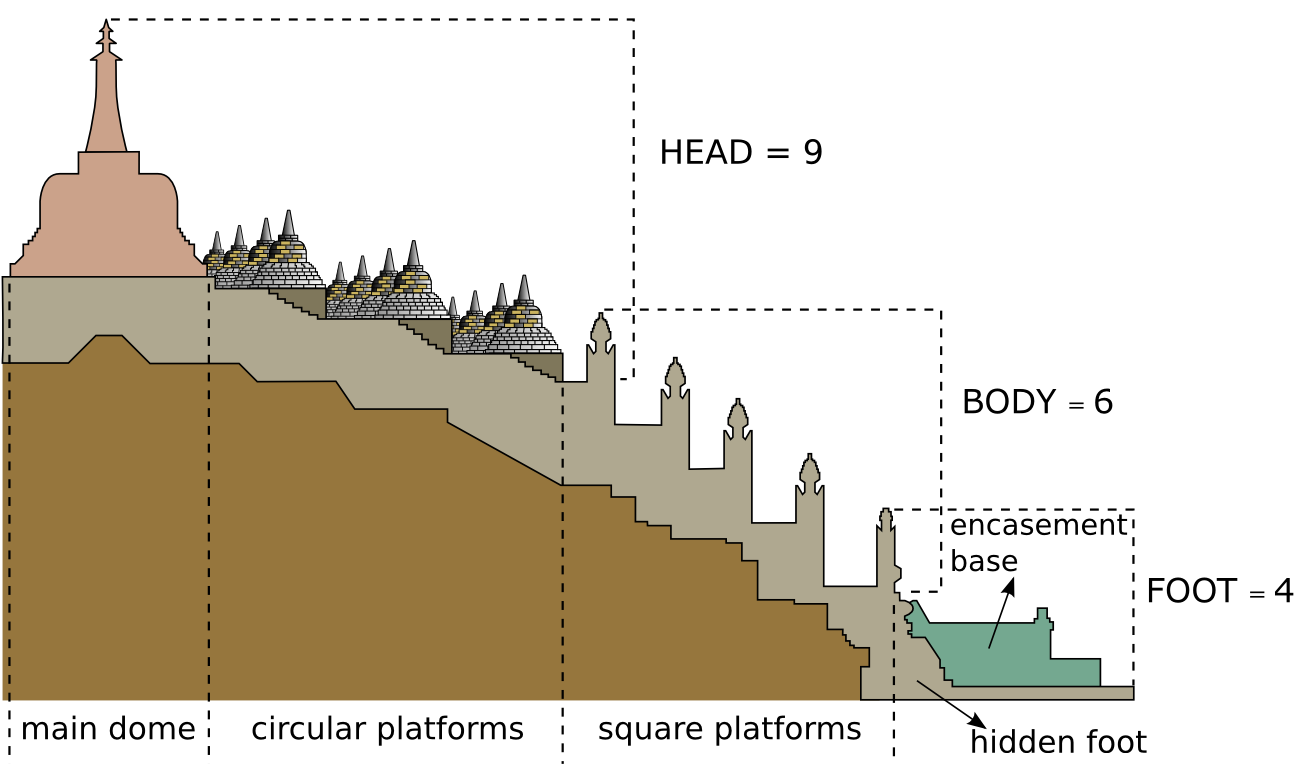 Half cross section of Borobudur. The numbers in the head, body and foot are ratios.